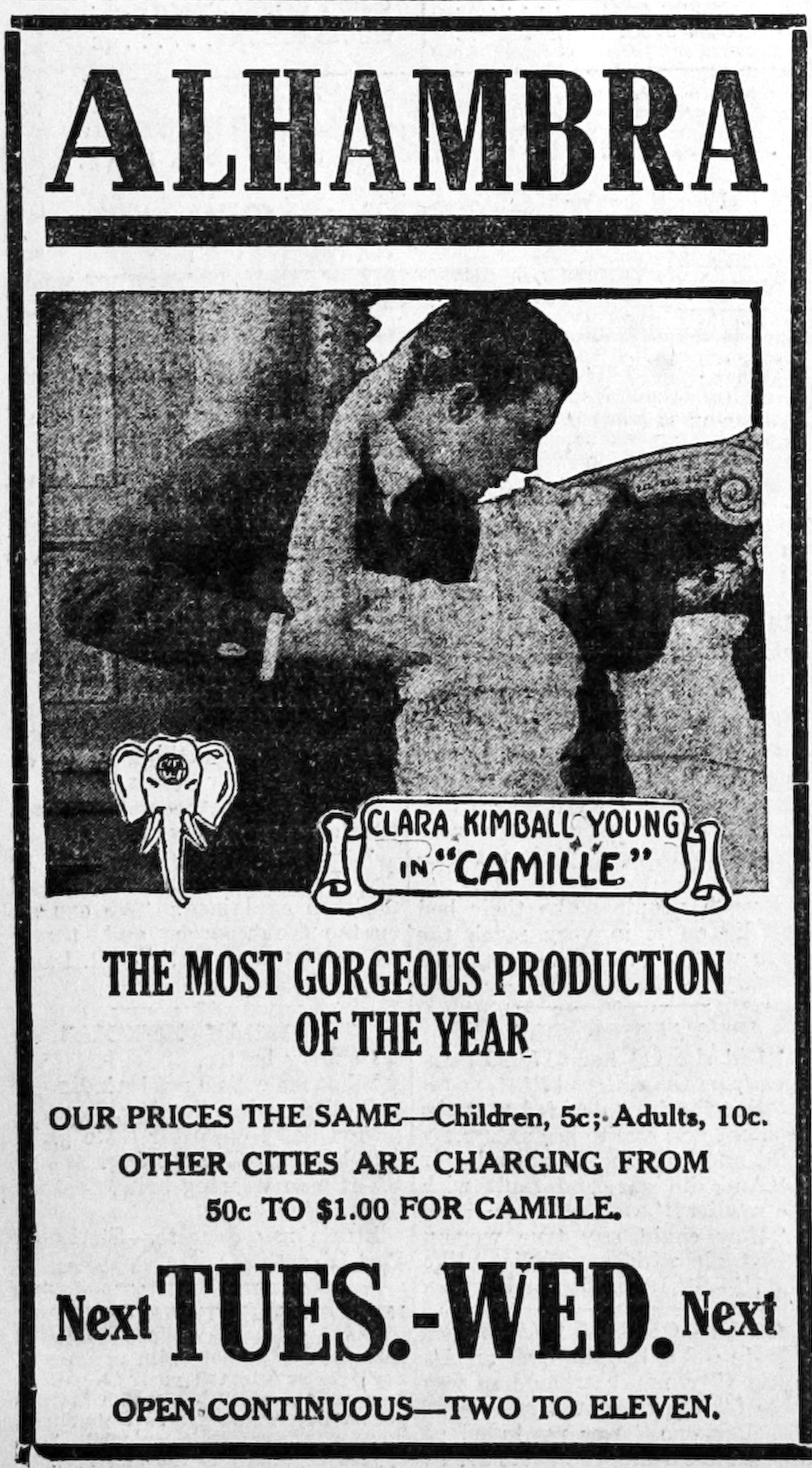 Camille is a 1915 film based on the 1852 novel and play La Dame aux Camélias by Alexandre Dumas, fils. It was adapted by Frances Marion and directed by Albert Capellani, and stars Clara Kimball Young, Paul Capellani, Lillian Cook and Robert Cummings. Though numerous other films have had the same title, this was the first to be called Camille. (This film should not be confused with the 1917 film of the same name.) This is from a newspaper advertisement from The Ogden Standard.